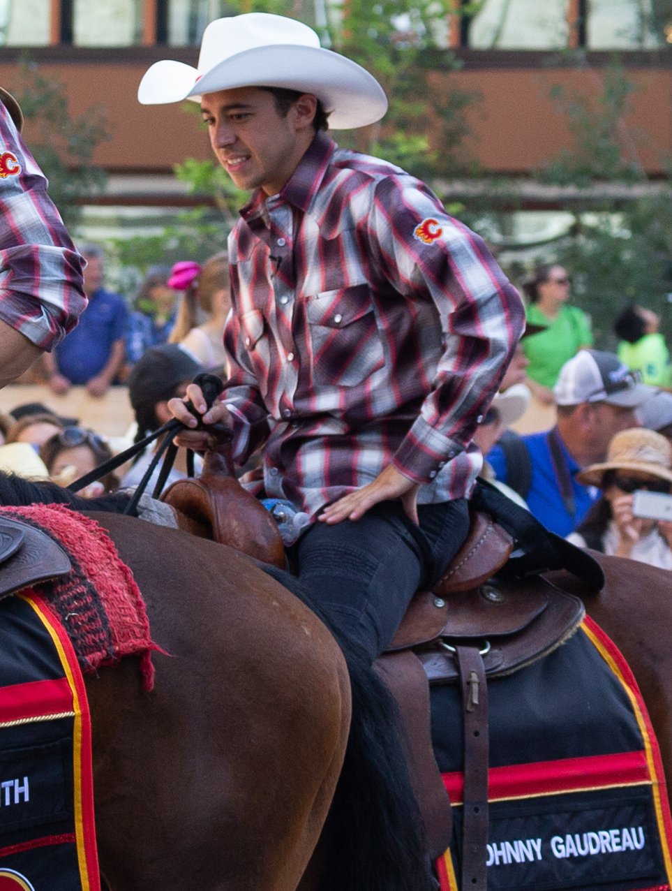 It's been a few years since the missus and I took time off from work to head down to the Calgary Stampede parade. We used to come down for the parade during our days at the University of Calgary, so it was a nice trip down memory lane. Here's Mike Smith and Johnny Hockey himself Johnny Gaudreau. Too bad we had to go and break Jaromir Jagr, would've loved to have seen him here.